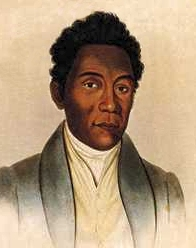 David Malo. A native of the Hawaiian Islands. Lithograph from a drawing by Alfred Thomas Agate from the United States Exploring Expedition, 1838-1842. Published in Charles Pickering The Races of Man, 1848.